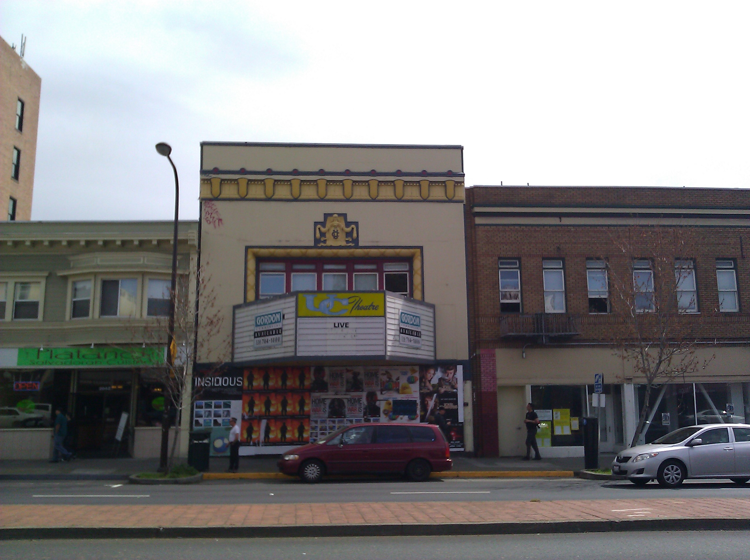 Empty Places I Used To Frequent: UC Theatre